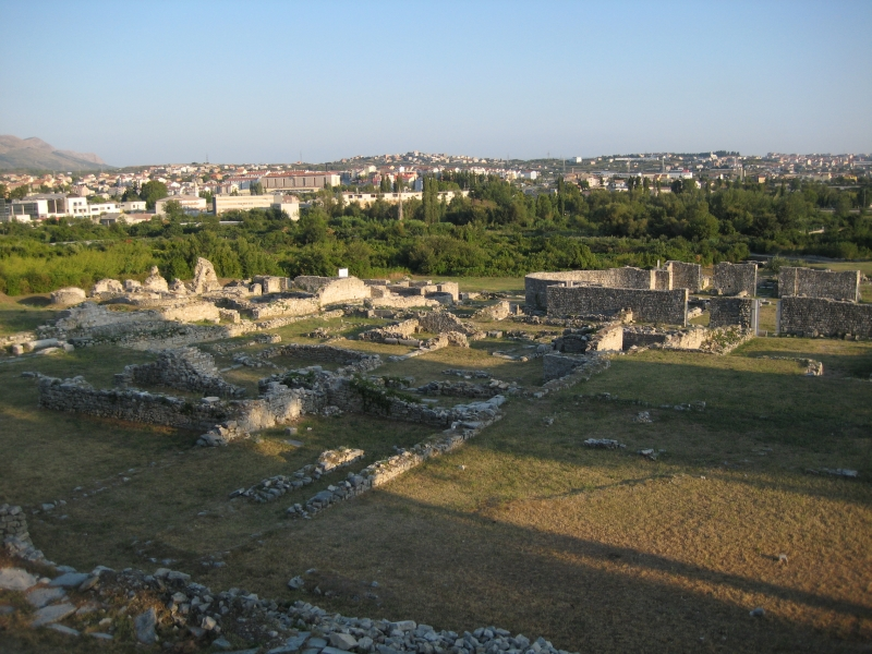 Salona, Solin, Croatia